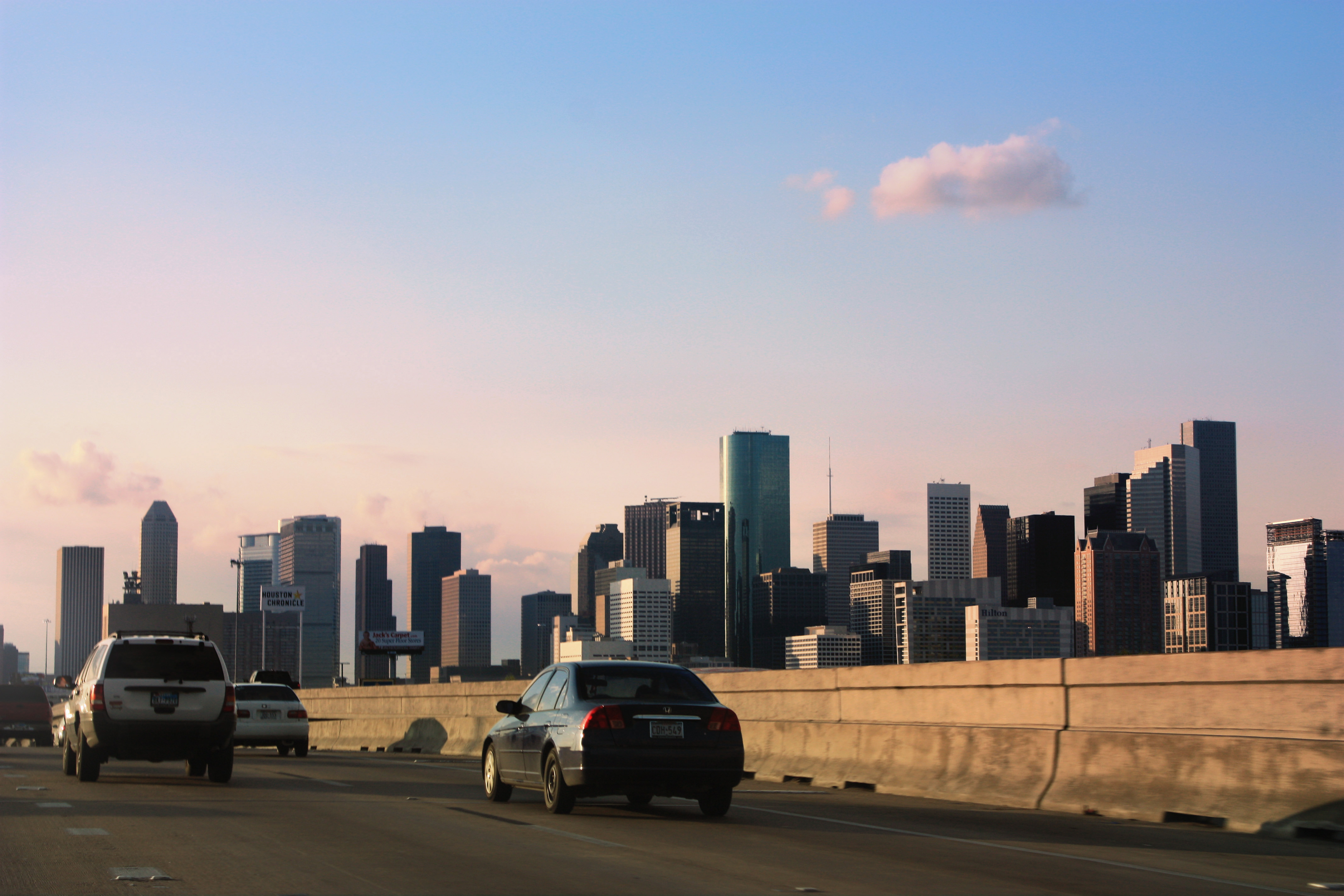 Houston skyline as seen from highway 45